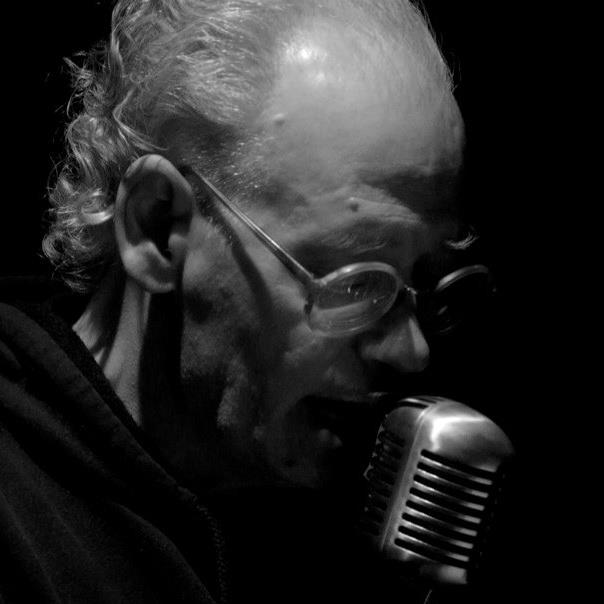 B&W photo of Marty Watt speaking into an old fashioned microphone. Valencia, Spain 2012.